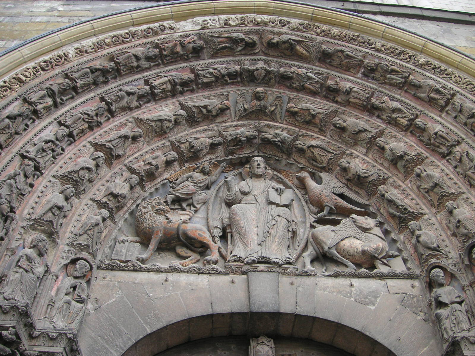 Angers Cathedral, France, West portal, Christ in Majesty with symbols of the Four Evangelists